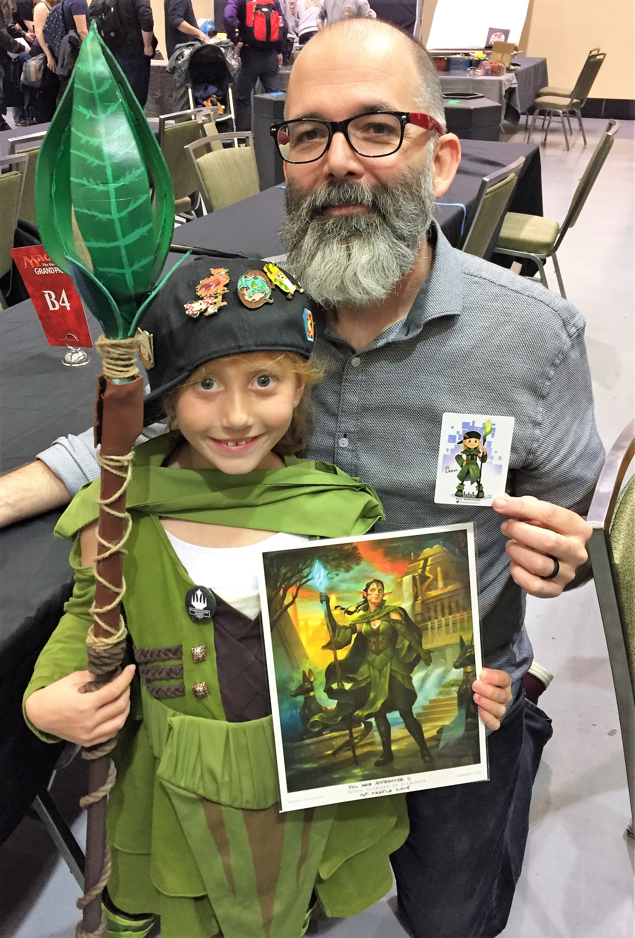 American artist Howard Lyon with young competitive Magic: the Gathering player Dana Fischer cosplaying as his Magic card artwork Nissa, Steward of Elements, at 2018 Magic Grand Prix Seattle.